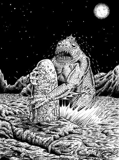 Artist's vision of Dagon in black and white.